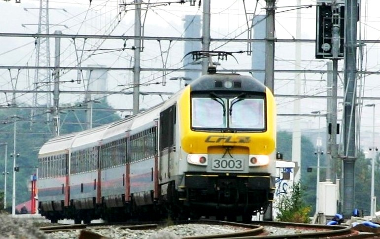 CFL 3003 at Angleur, BE